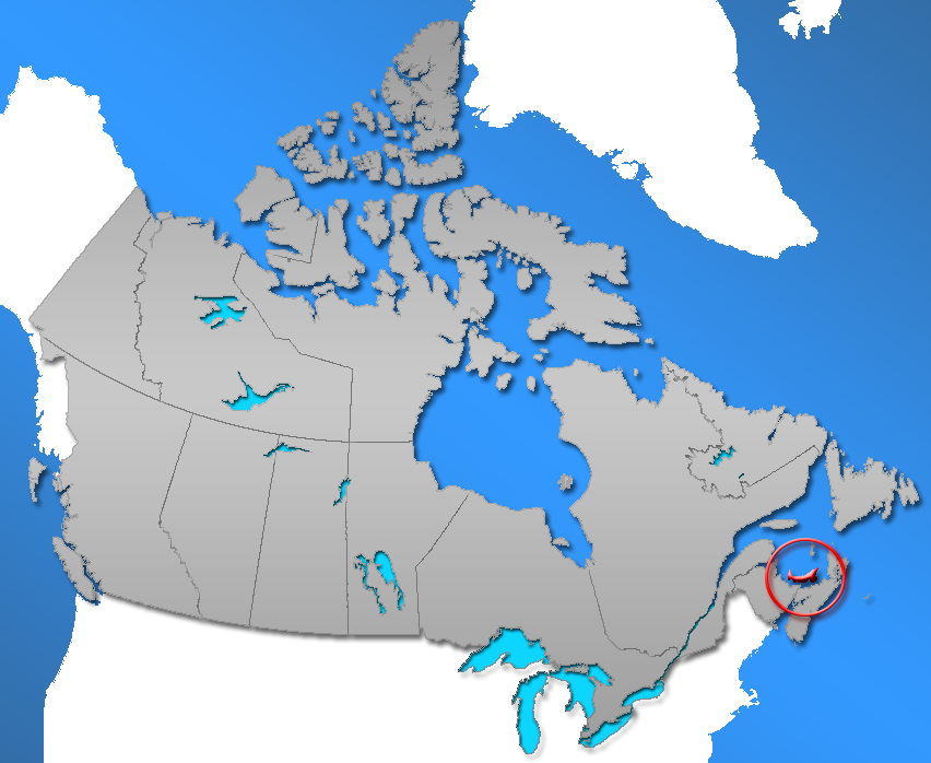 Province of Prince Edward Island in Canada